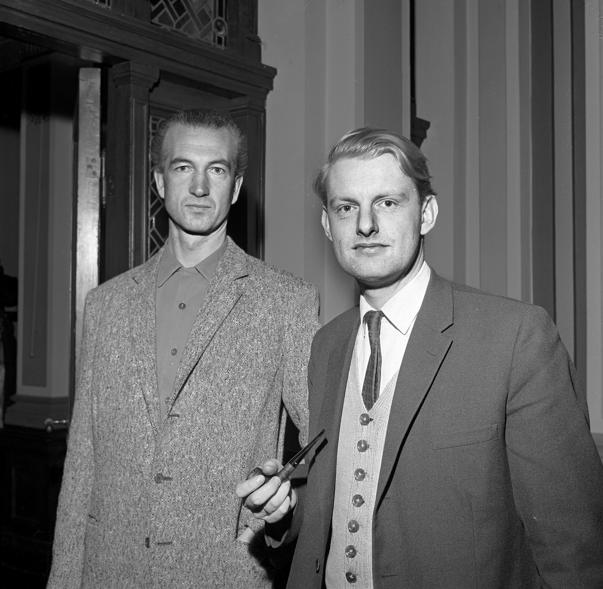 Norwegian architect Håkon Christie (1922–2010) at left, danish museum director Olaf Heymann Olsen (born 1928) at right. Photo from 1962.